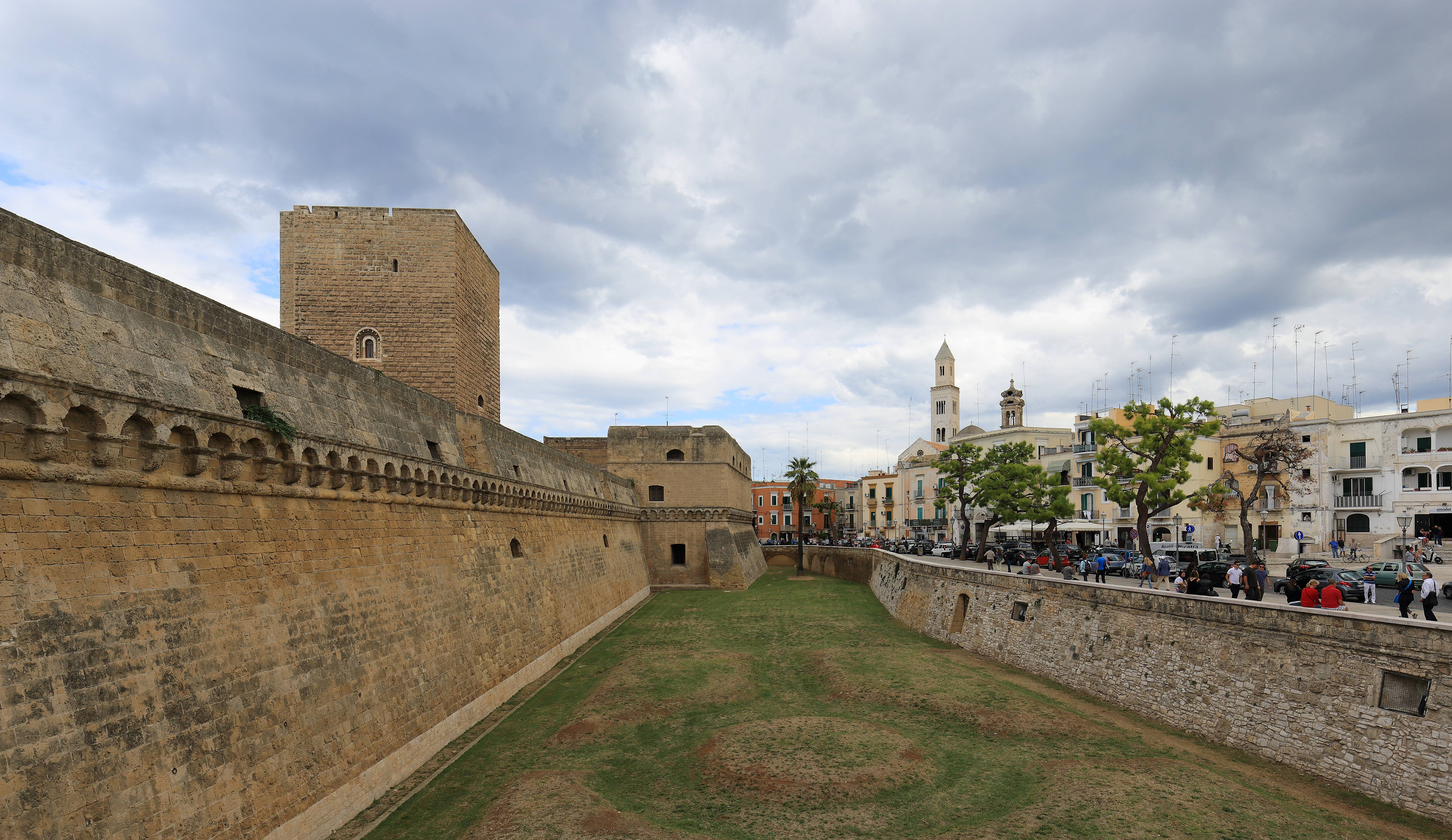 The Old Town of Bari as seen from the Castello Svevo.